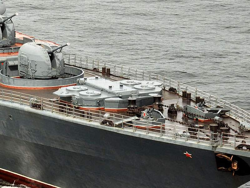 The Russian navy anti-submarine ship Severomorsk (BPK 619) sails with the U.S. 6th Fleet flagship USS Mount Whitney (LCC/JCC 20) during a joint exercise between the Russian and United States navies July 19. Mount Whitney is on a scheduled deployment in the U.S. 6th Fleet area of responsibility.